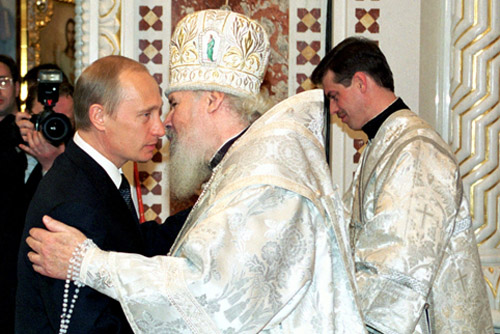 Paschal service at the Cathedral of Christ the Saviour. Patriarch Aleksei II of Moscow and all Rus'